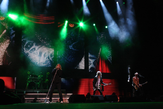 Def Leppard go hard in Sydney Australia Def Leppard have still got it. Rolling Stone Magazine, the music and entertainment bible, may have labeled the British rock group the "unluckiest band in the world", but the fans and media tonight sure felt lucky to experience them live. They headlined the Sydney Entertainment Centre tonight, and support group, Heart, showed they had plenty of that. It was Heart's first Australian tour believe it or not and Ann and Nancy Wilson sounded fantastic. We understand Def Leppard are just coming off a rest, having spent more than a decade on the road. One may have thought that DL may have slowed down quite a bit, but this wasn't the case. The boys - Phil Collen, Rick Savage, Rick Allen and Vivian Campbell fronted by Elliot, we're here to party big time. They offered up loud, monster rock, helped along with fist pumping and strong crowd support, joining in for much of the fun. The track list included Rocket, Animal, Let’s Get Rocked Two Steps Behind. Base man Savage and the strong one-armed drummer Allen led the open. The number that many of the crowd had come to see was Pour Some Sugar On Me, with fans going nutso. Like fellow rock gods, The Rolling Stones, age has hardly put a dent in their performance or sound. The Sydney Entertainment Centre has been the Sydney home to a lot of great rock bands over the past year and Def Leppard need not play second fiddle to anyone. Heart gave it their all too. Rock on. Websites Def Leppard Heart Sydney Entertainment Centre Eva Rinaldi Photography Flickr Eva Rinaldi Photography Music News Australia